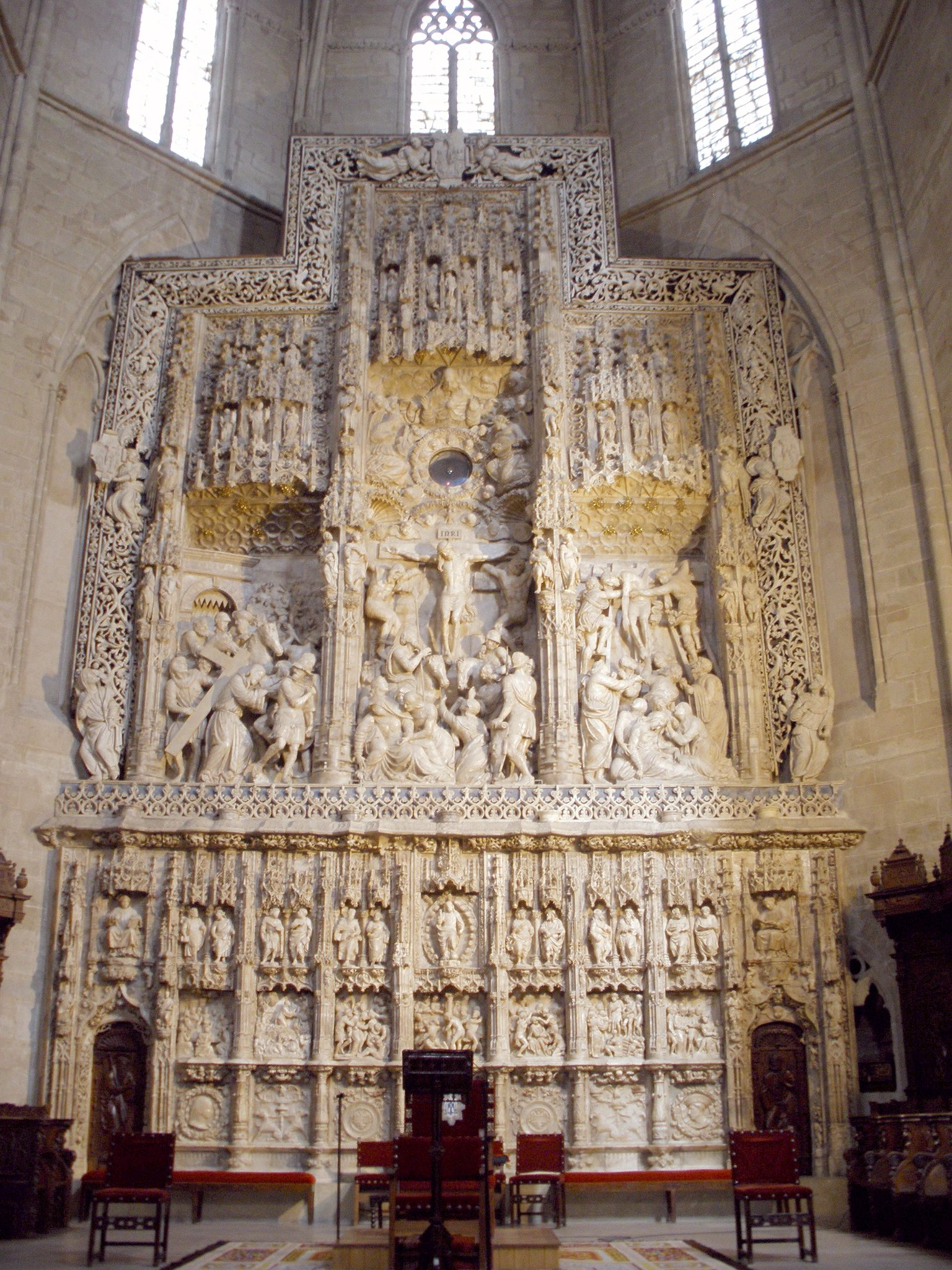 Retablo mayor de la Catedral de Huesca (España)